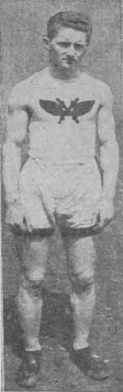 Hurdler Walter A. Hummel wearing the winged M of Multnomah Amateur Athletic Club